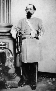 William Wing Loring (1818-1886), Confederate General.